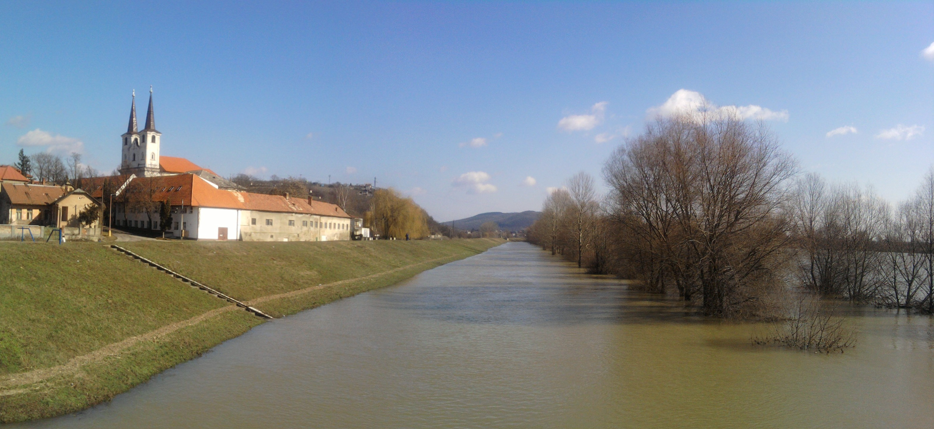 Ipeľ river in Šahy